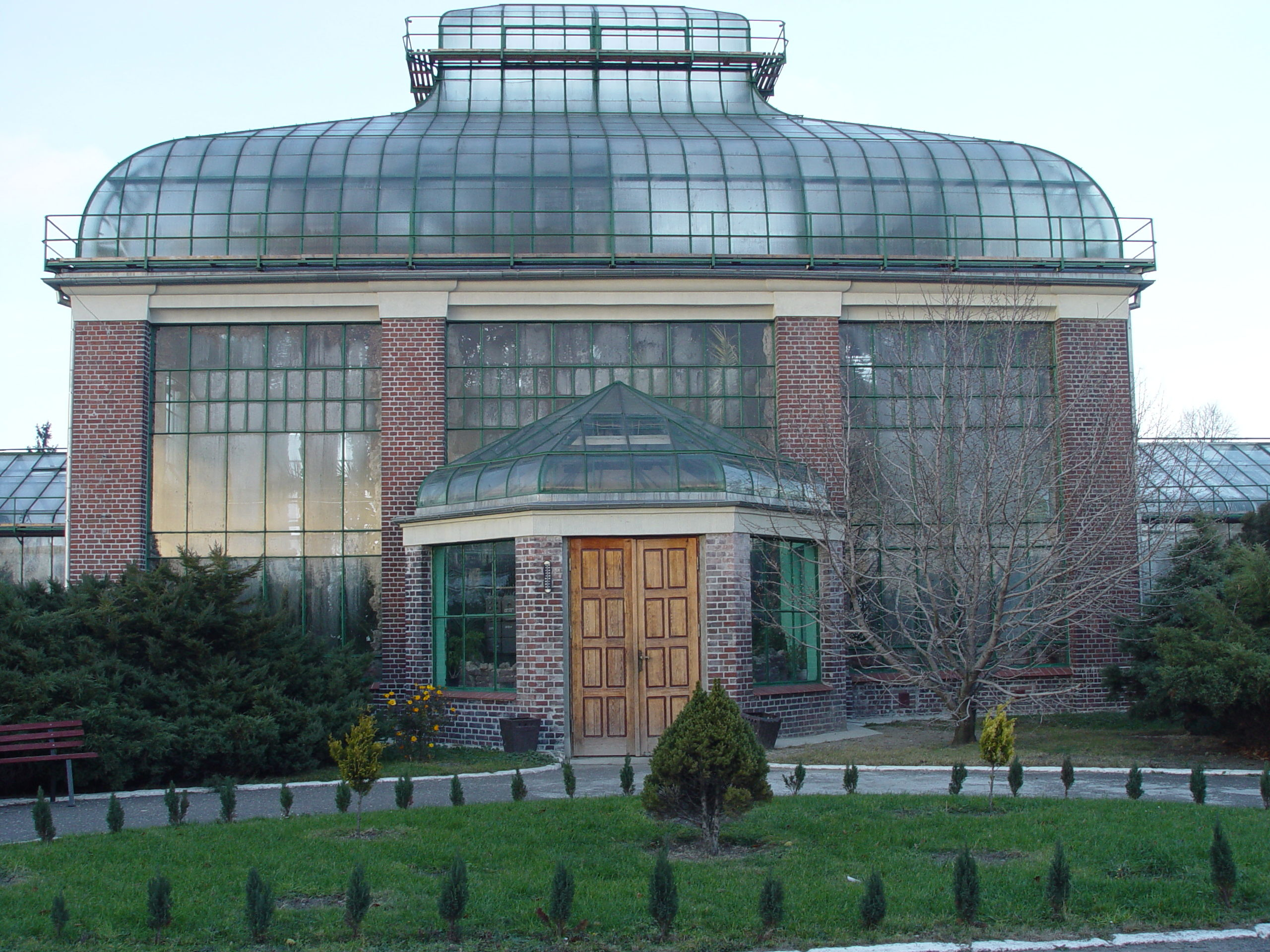 Palmiarnia Lubiechowska – a palm house in Wałbrzych, Poland